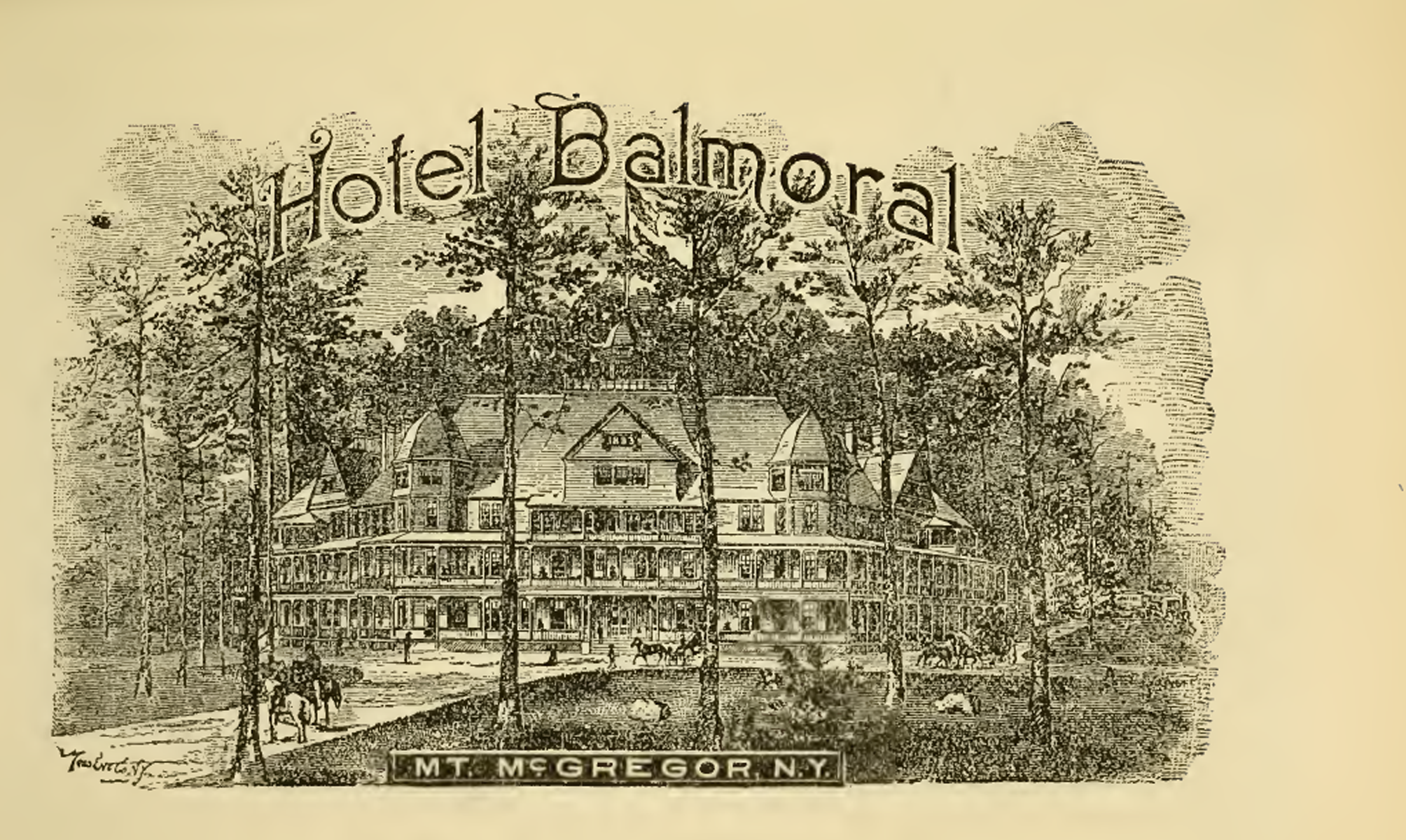 The Hotel Balmoral stood at the top of Mount McGregor, near Saratoga Springs, NY, from 1883-1897.